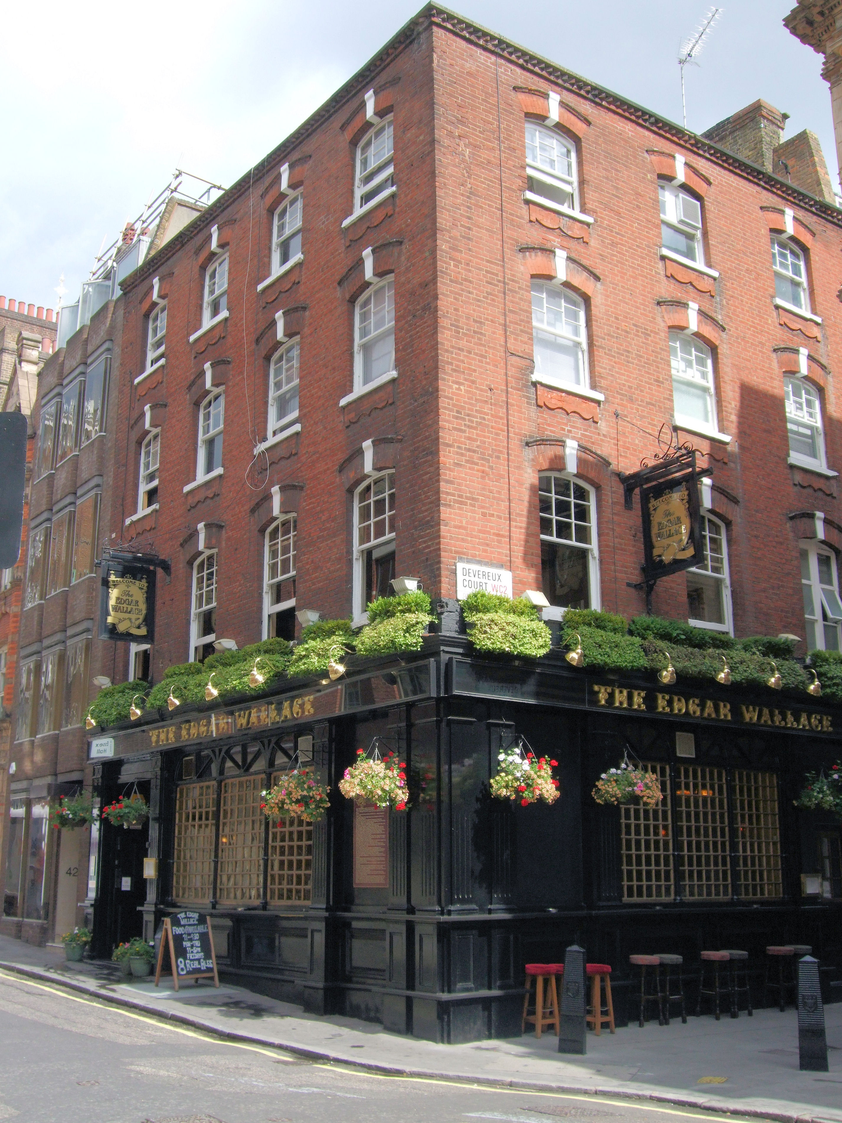 The Edgar Wallace Pub, Devereux Court - City Of London.